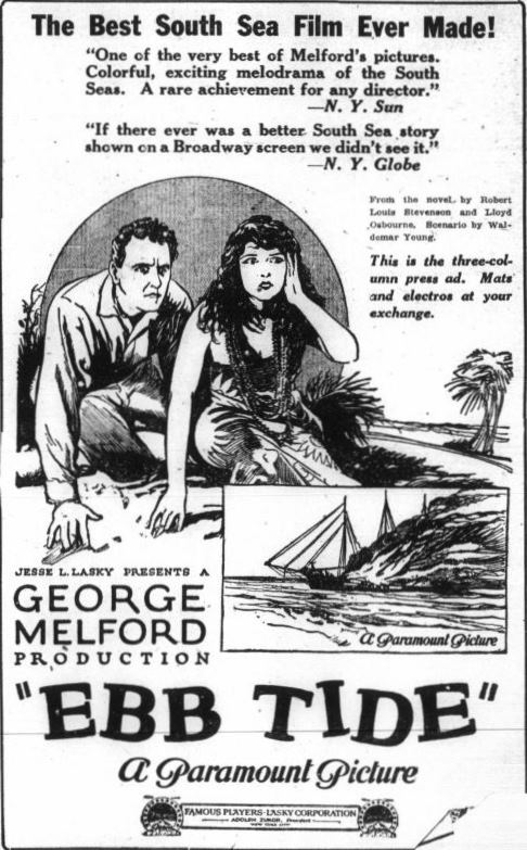 Advertisement for the American drama film Ebb Tide (1922) with James Kirkwood and Jacqueline Logan, on page 35 of the November 24, 1922 Variety.